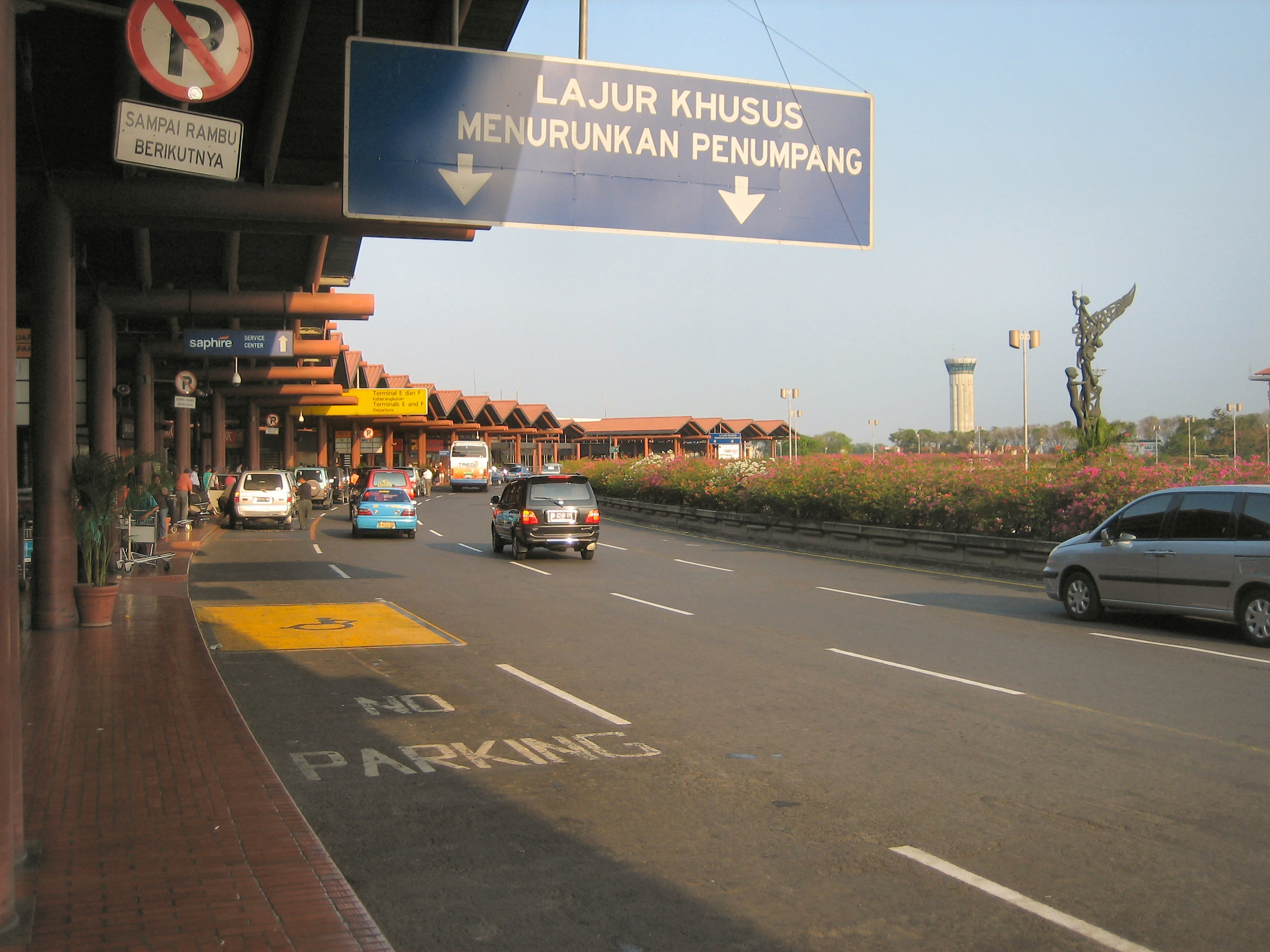 Sukarno Hatta international airport Terminal Jakarta - Indonesia Picture taken november 2006 by Hullie